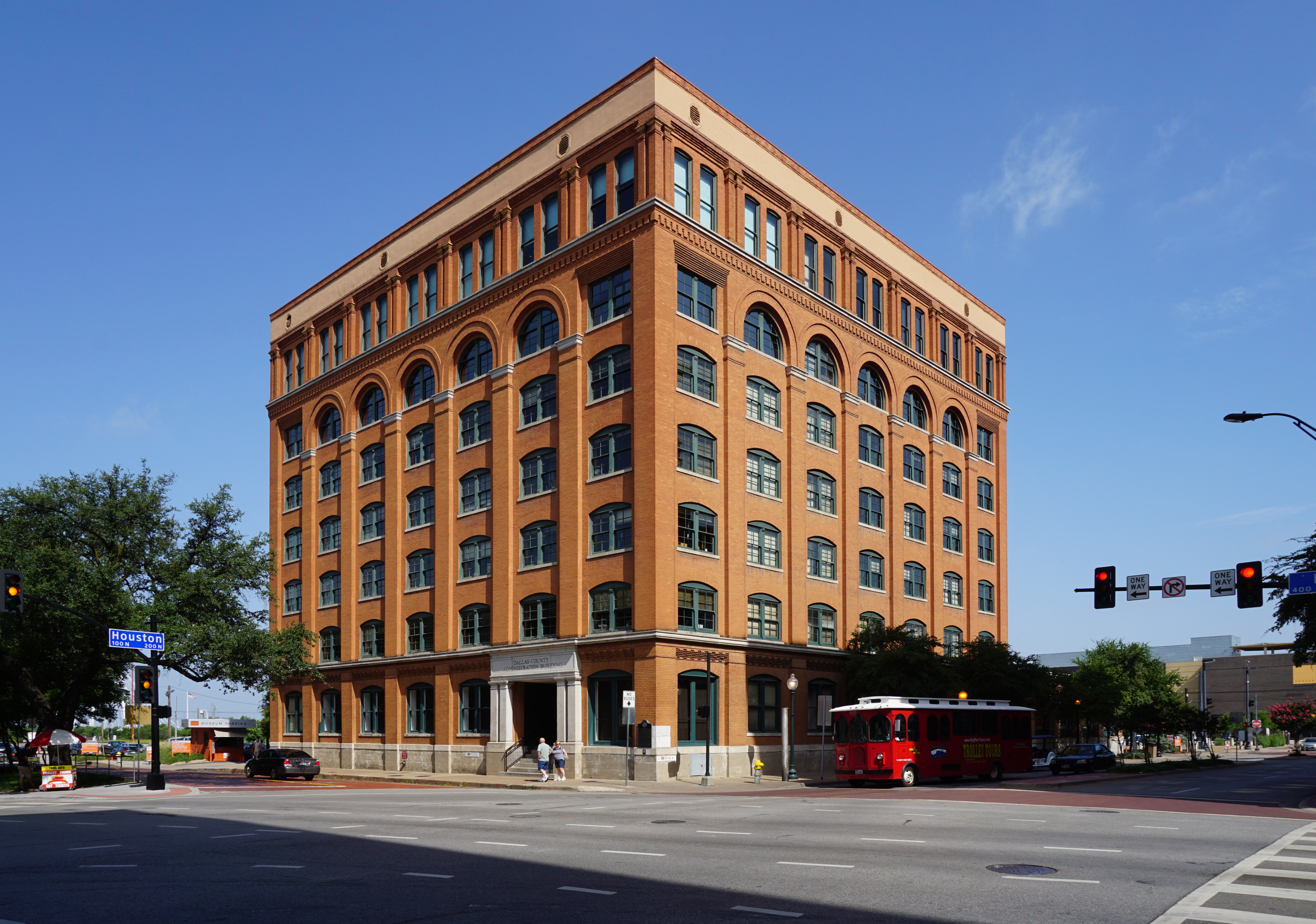 The Texas School Book Depository in Dallas, Texas (United States).